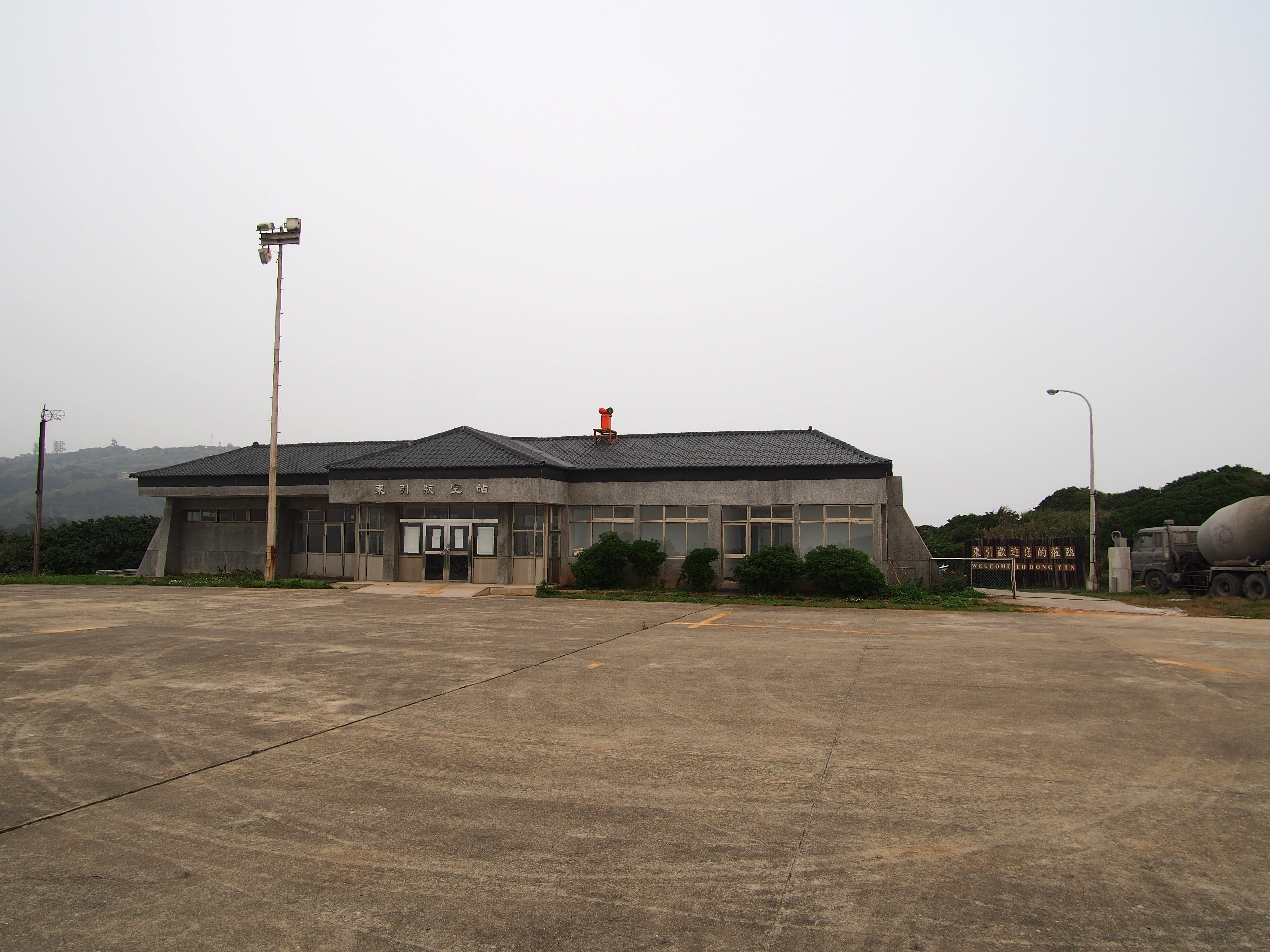 Dongyin Heliport - 2016.04